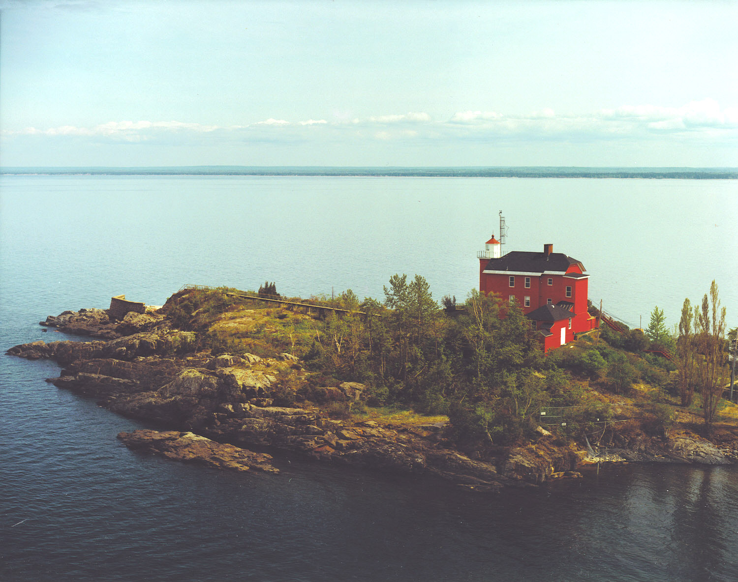 The United States Coast Guard Marquette Lighthouse on Lake Superior at Marquette, Michigan, USA.